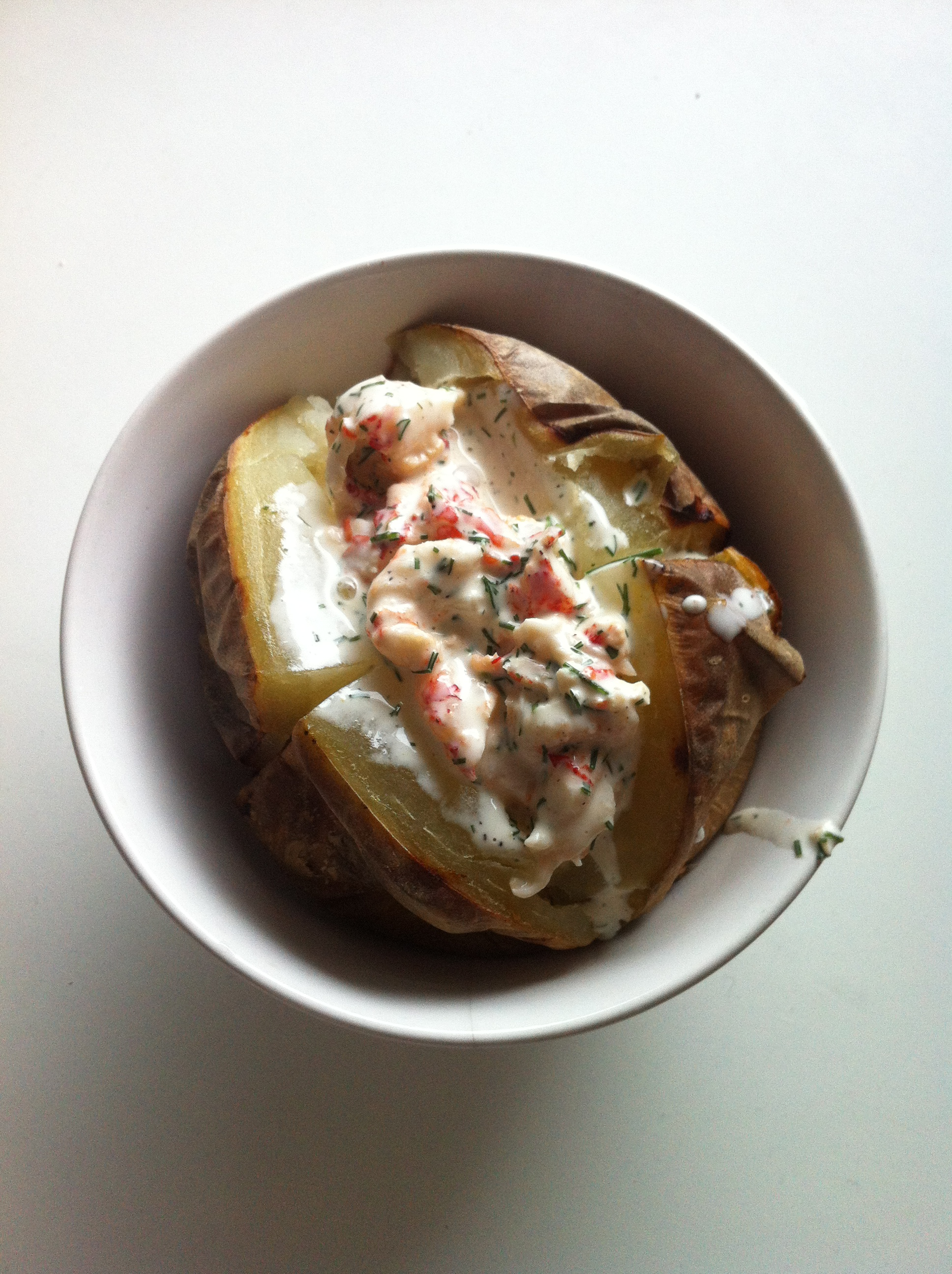 A baked potato with skagenröra, 2012